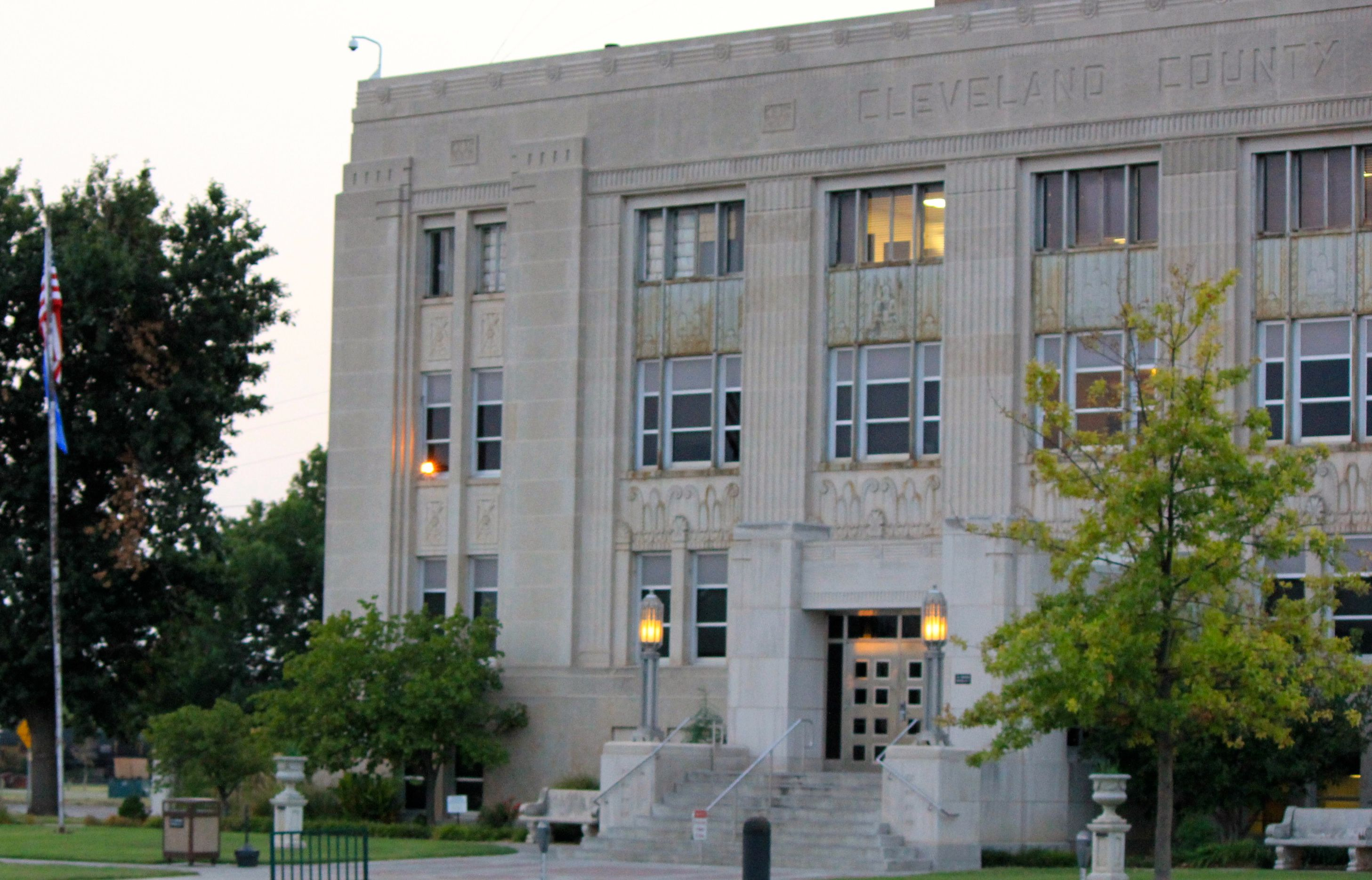 Cleveland County Courthouse